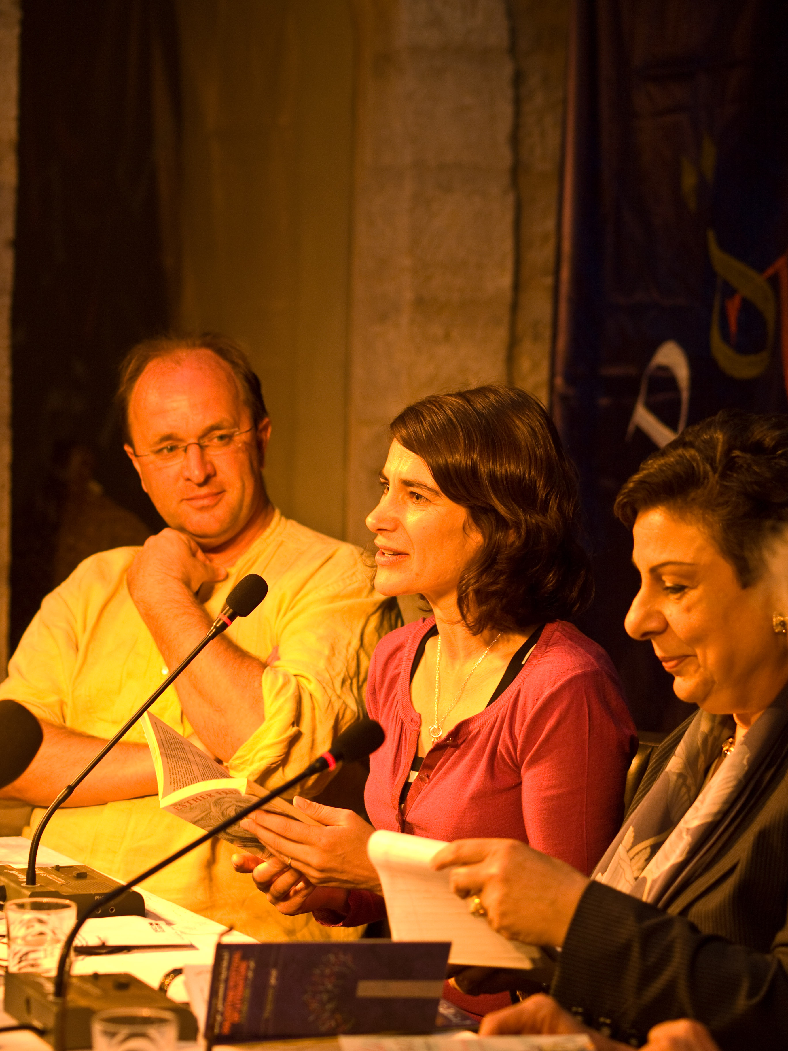 PalFest 2008: William Dalrymple, Esther Freud and Dr. Hanan Ashrawi